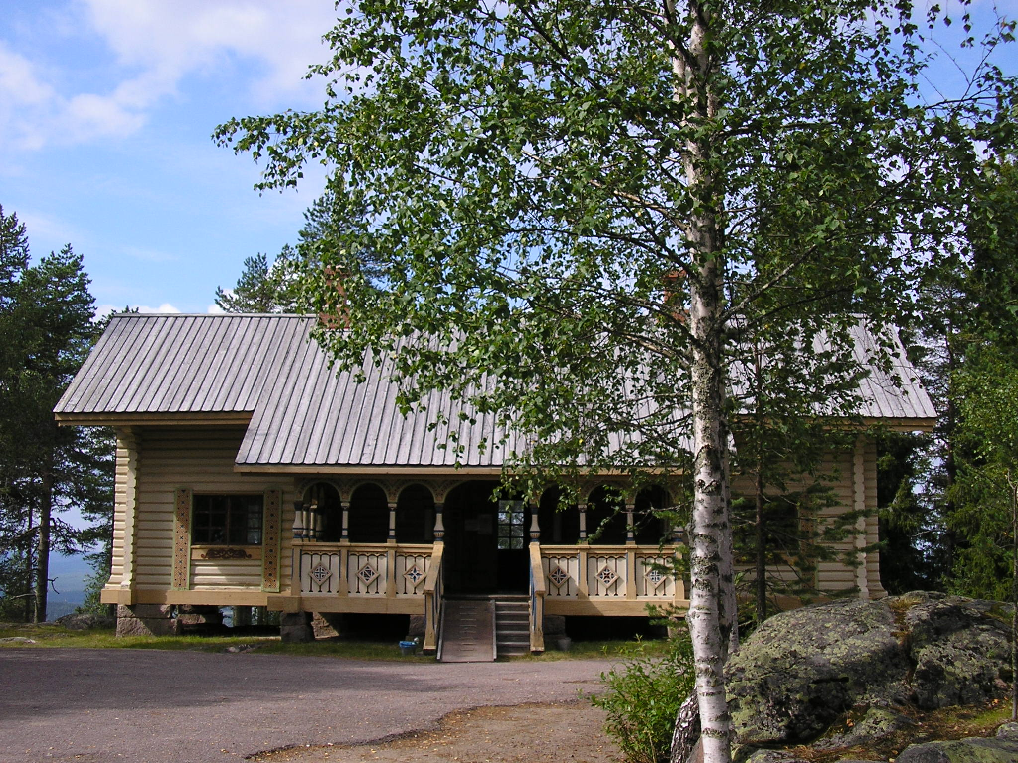 Aavasaksa